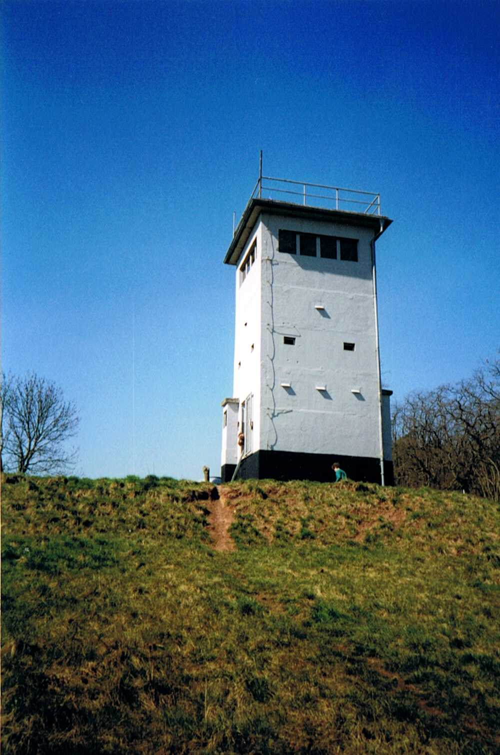 picture of former bordersecurity tower from east germany. Now it is used as a protected environment for bats and birds. Will be used for watch tower